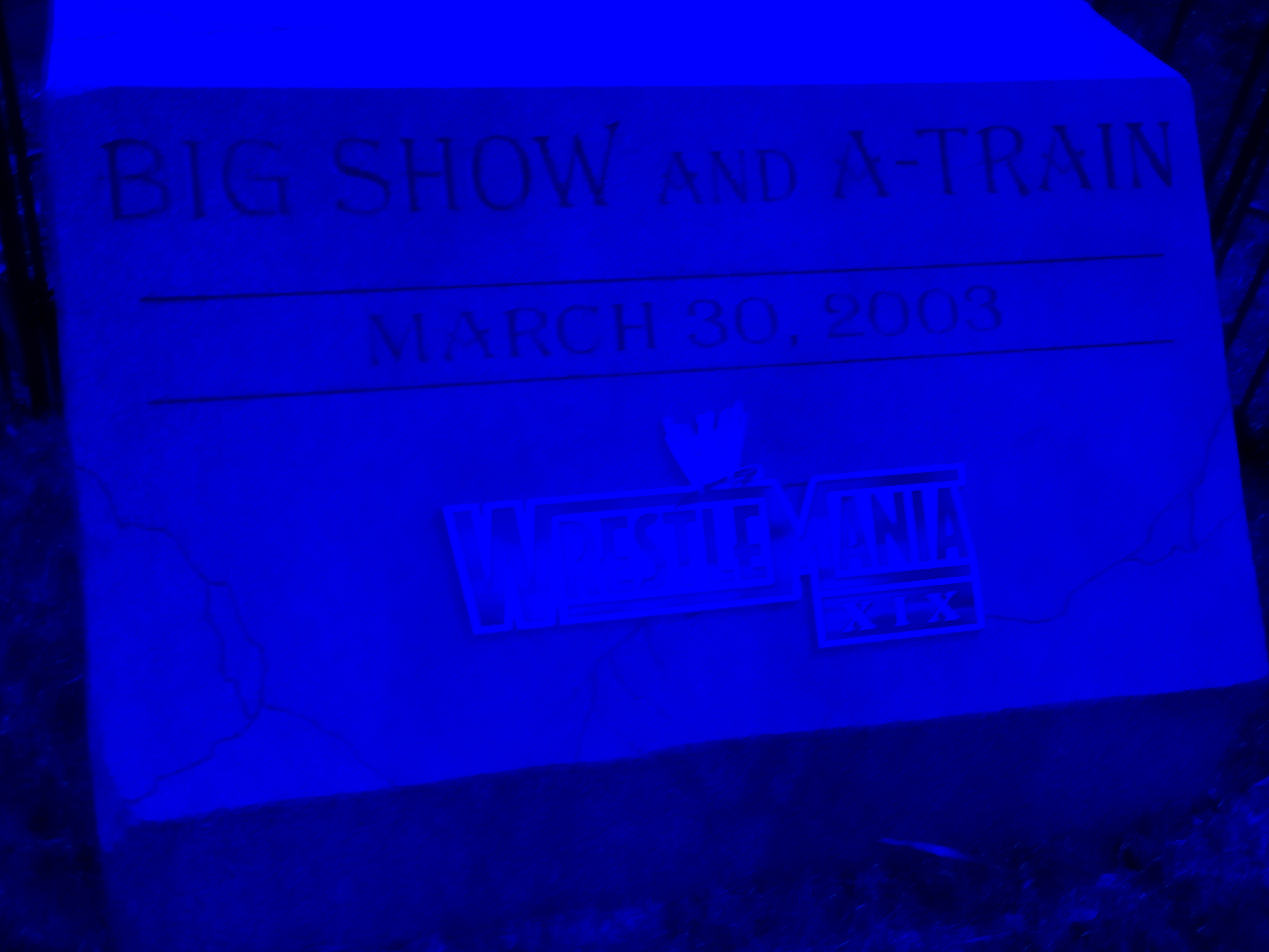 The Undertaker's Graveyard @ Axxess